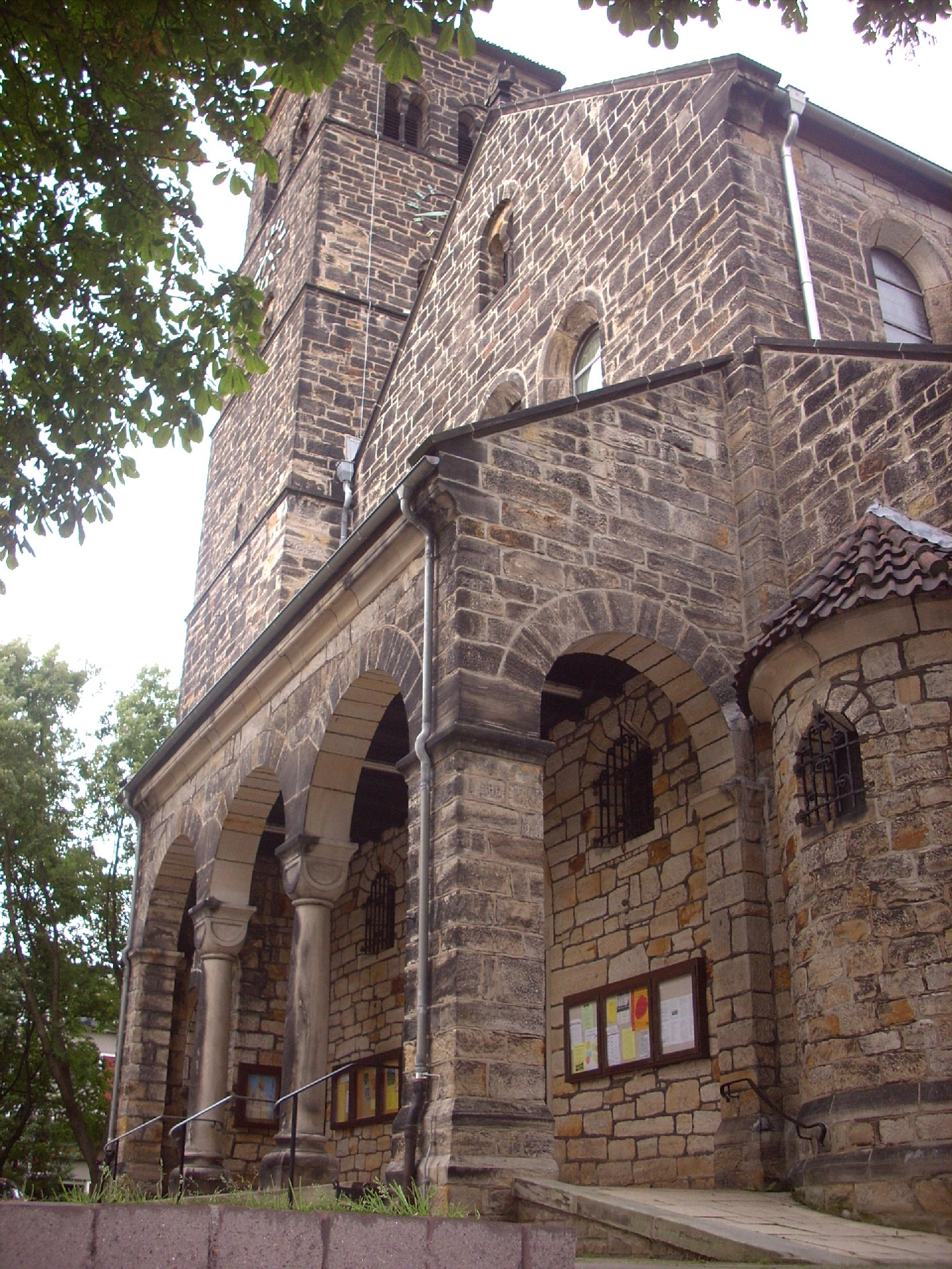 Hannover, St. Bernward Catholic Church